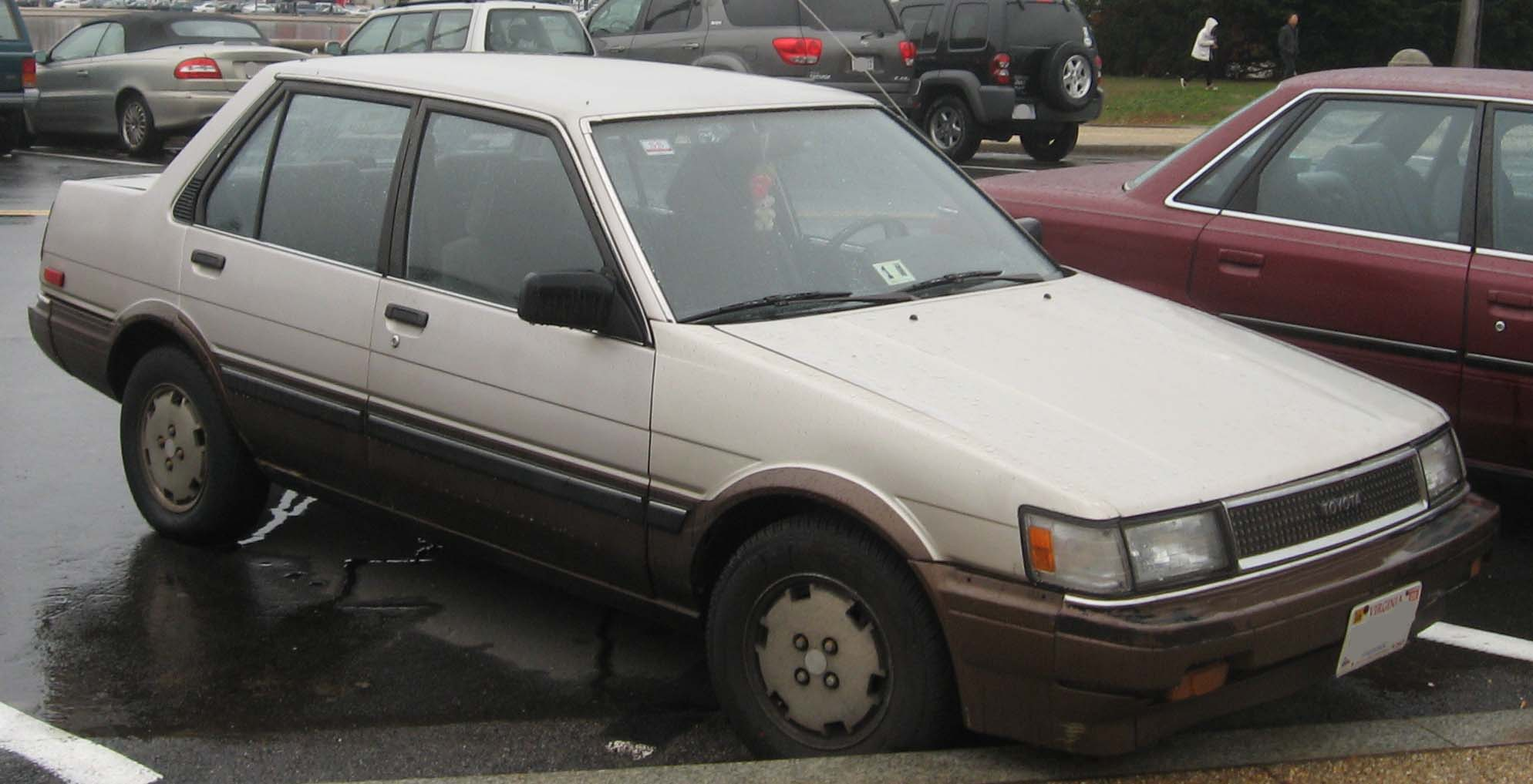 1986-1987 Toyota Corolla photographed in Washington, D.C., USA.